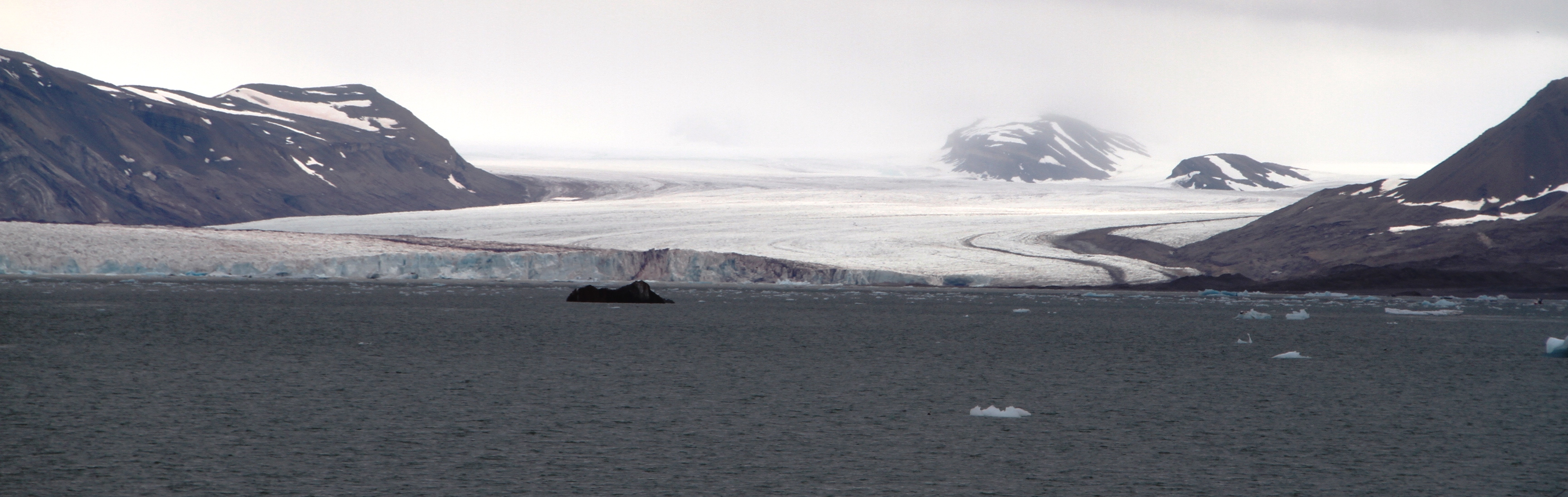 Kongsvegen glacier in the innermost part of Kongsfjorden (Kings Bay), western Spitsbergen.